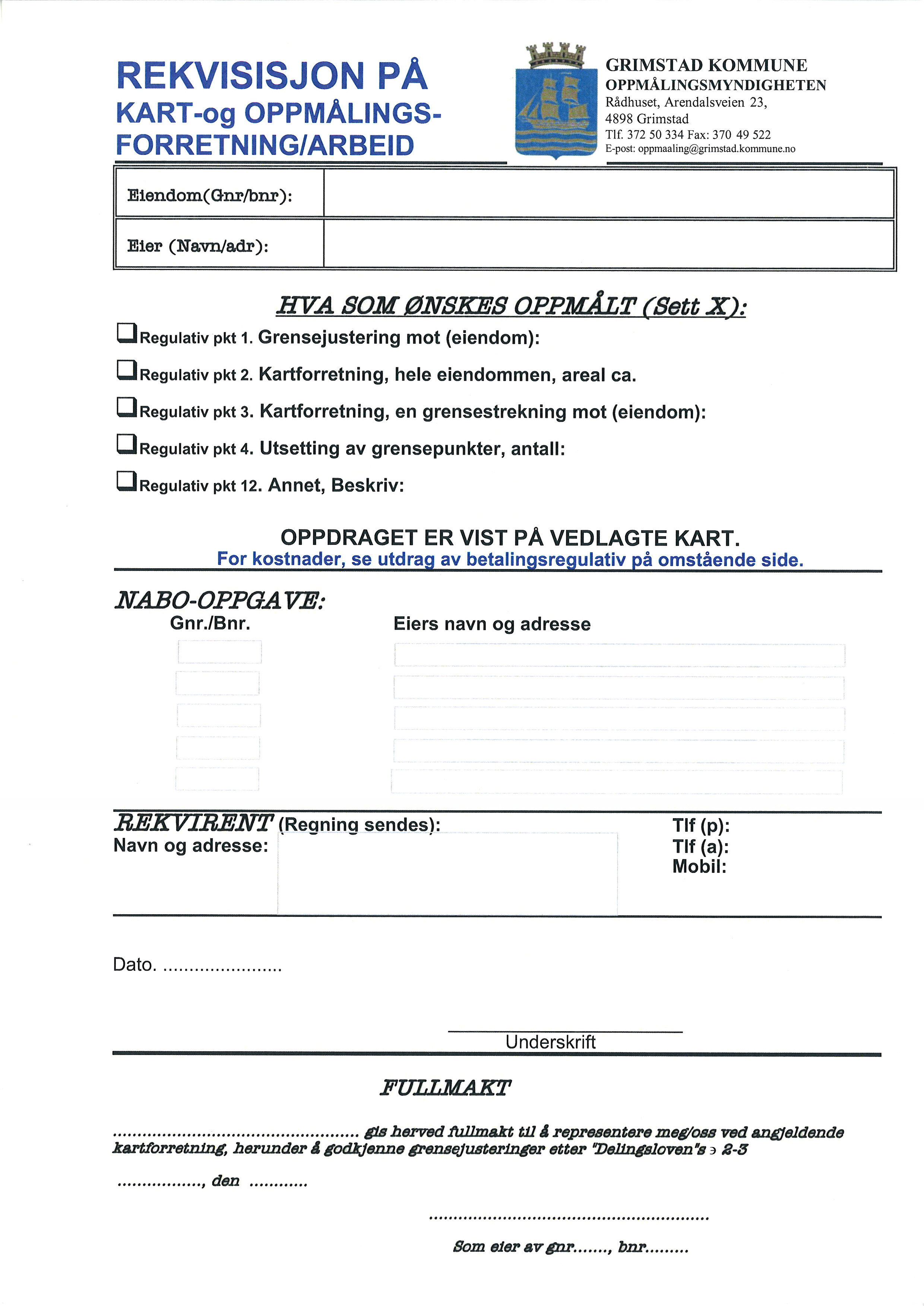 "Rekvisisjon", Land surveying, Grimstad, Norway